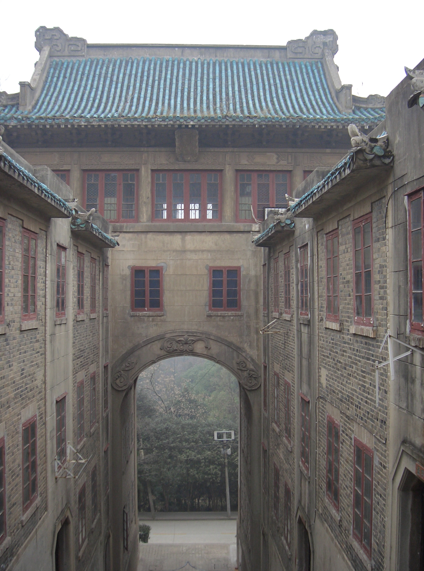 An arch between two student accommodation buildings at Wuhan University, Hubei province, China.